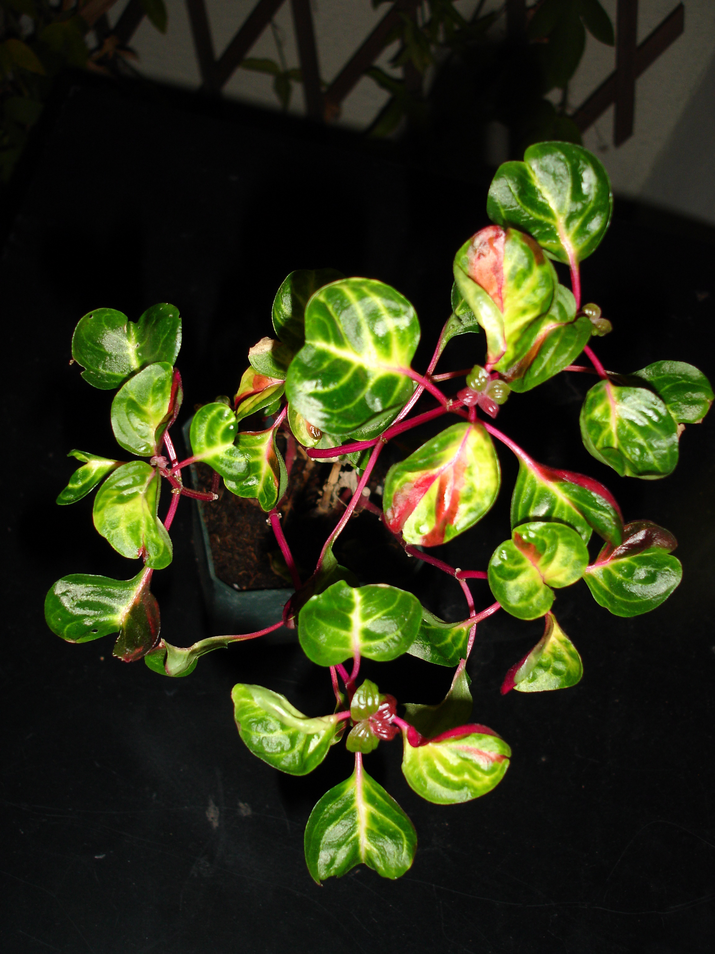 Iresine herbstii - cultivar "aureoreticulata